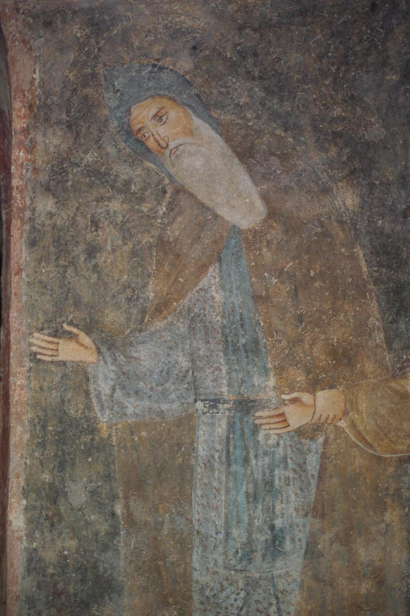 Sveti Simeon/Stefan Nemanja, second half of the XIII century, fresco from Sopoćani monastery, Serbia